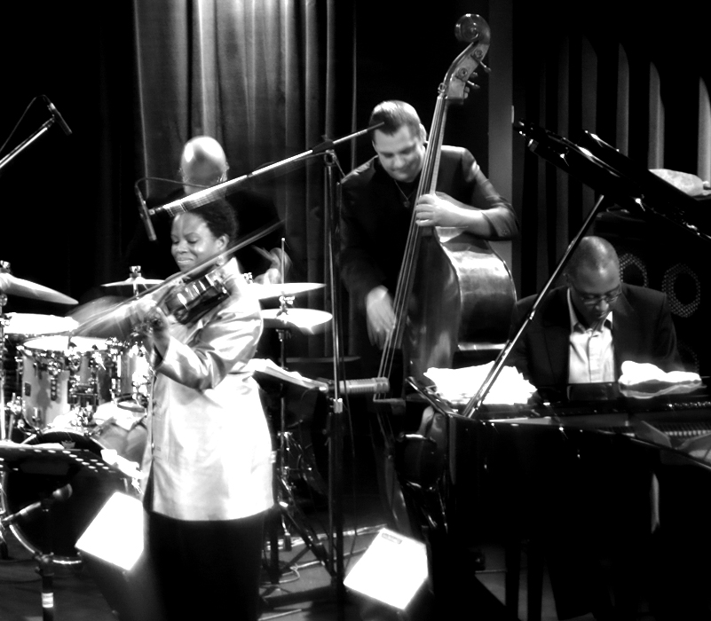 Jazz violinist Regina Carter performing at the Blue Note in Milano.Regina Carter at the Blue Note, Milano